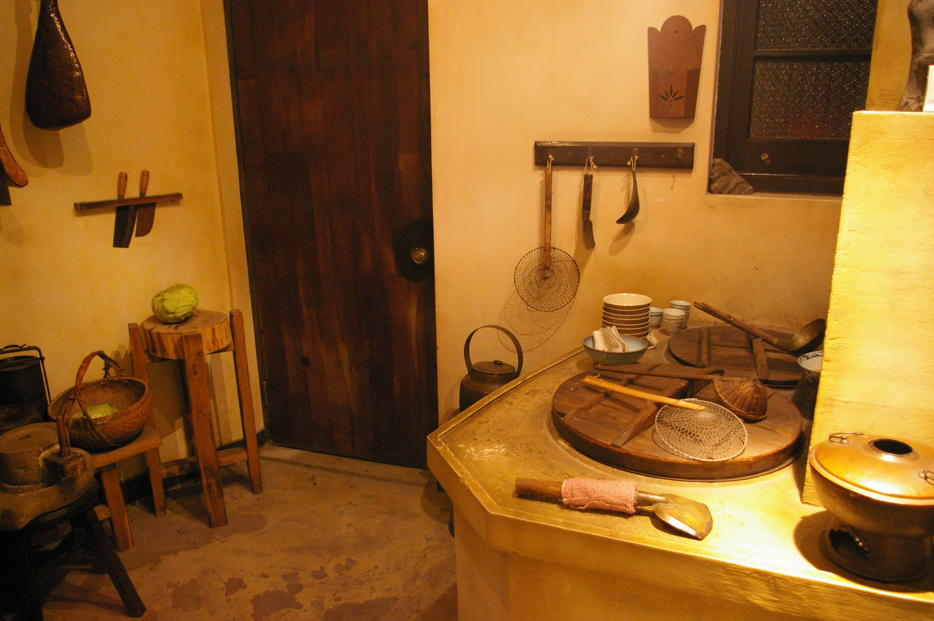 Shikumen Open House Museum in Shanghai